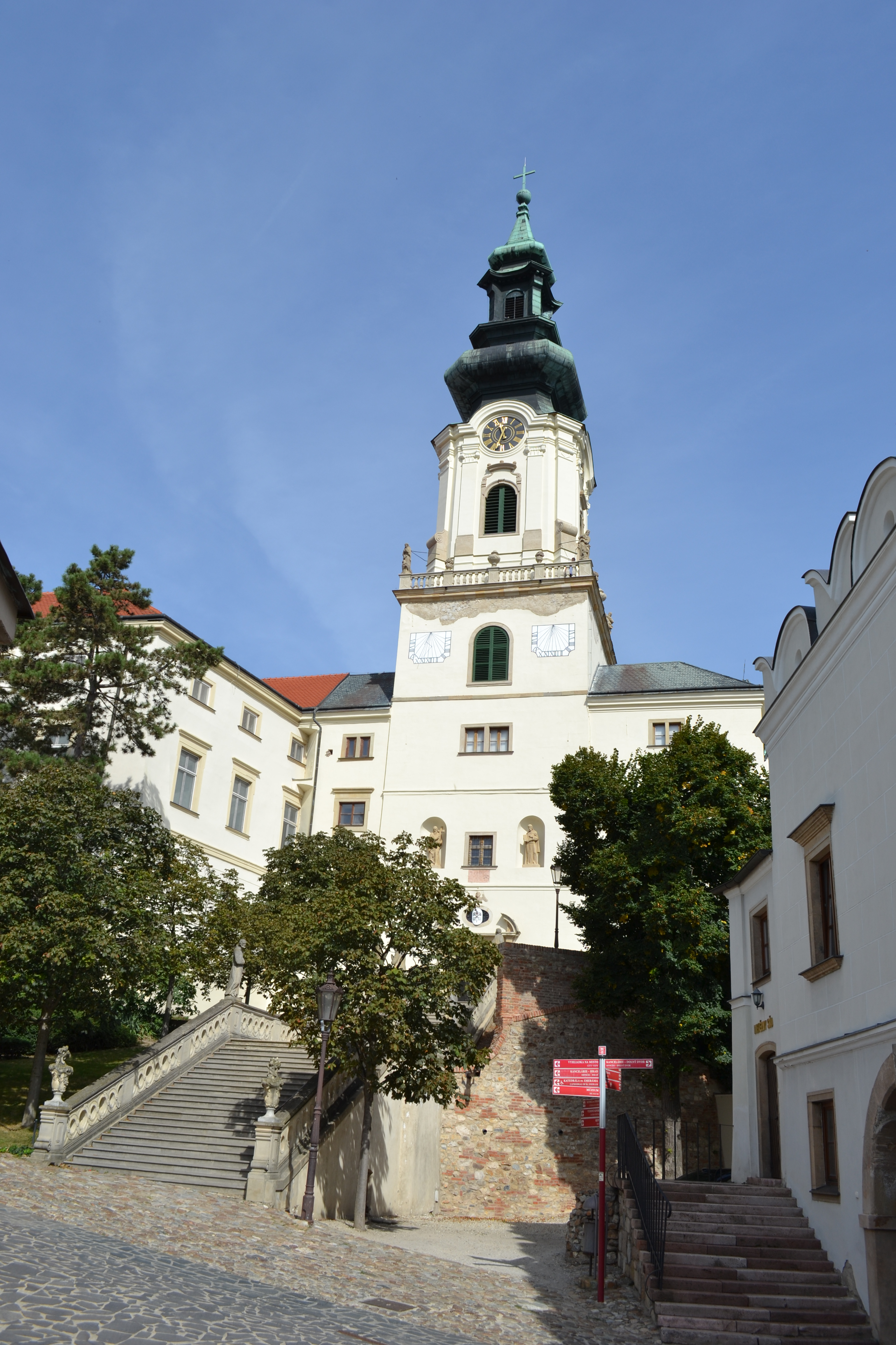 Cathedral Basilica of St Emmeram in NitraSlovenčina: Katedrála sv. Emeráma v Nitre